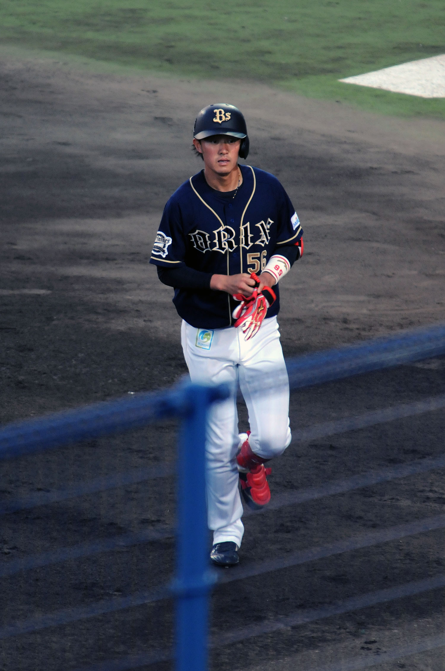 Kengo Takeda, outfielder of the Orix Buffaloes, at Akita Prefectural Baseball Stadium